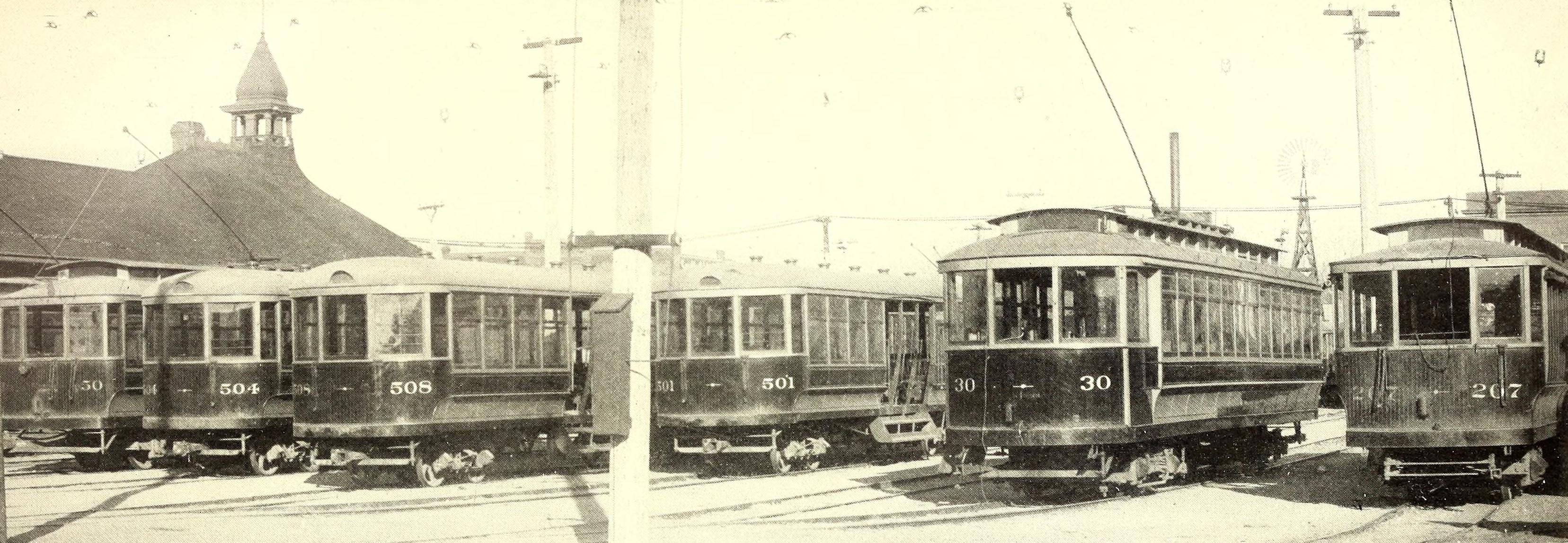 Title: Electric railway journal Year: 1908 (1900s) Authors: Subjects: Electric railroads Publisher: (New York) McGraw Hill Pub. Co Text Appearing Before Image: Denver City Tramway—Interior 1909 Type Motor Car Denver City Tramway—Concrete Mixing Car Plate X Text Appearing After Image: Plate XI